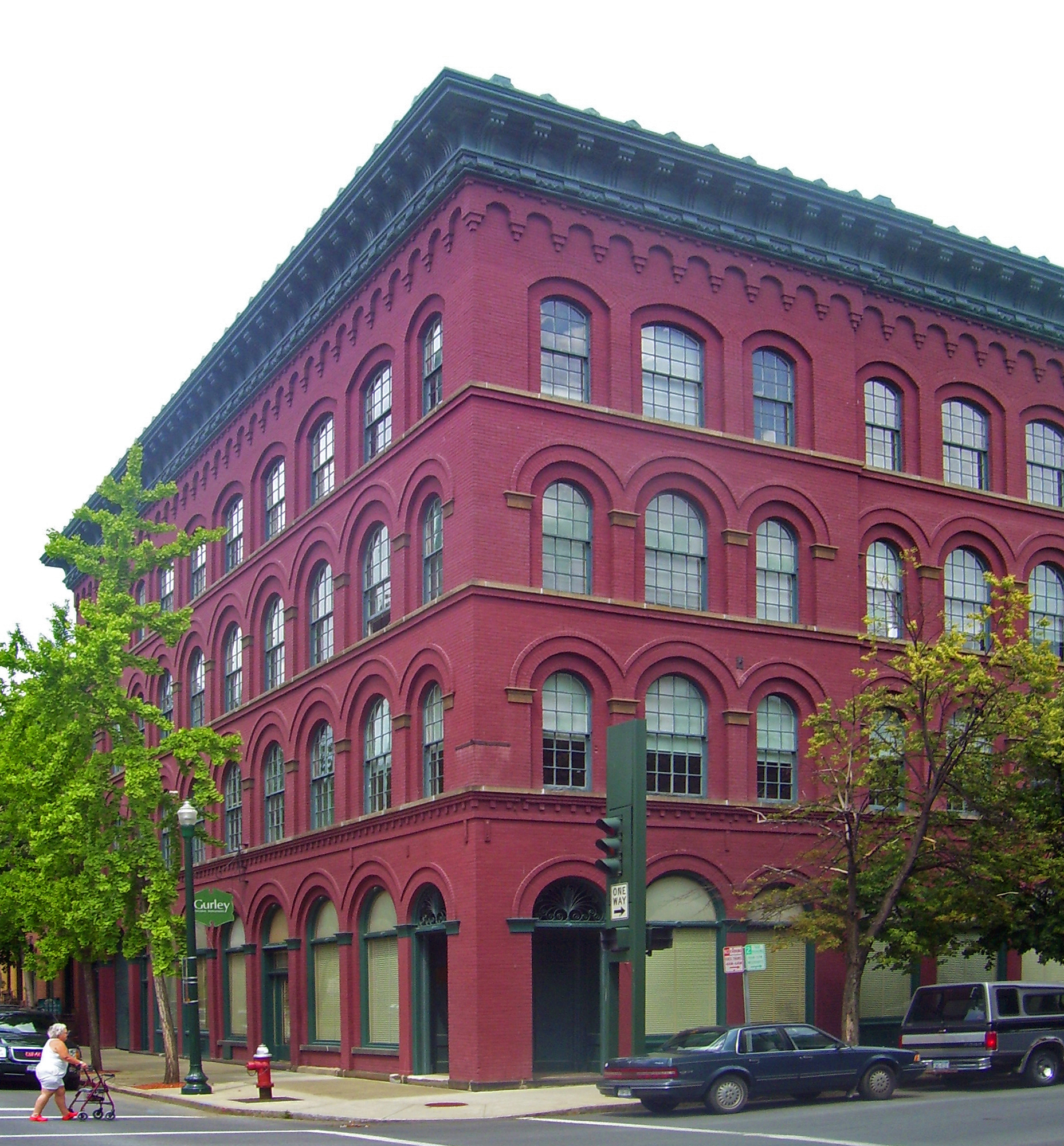 W. & L. E. Gurley Building, a U.S. National Historic Landmark in Troy, NY.